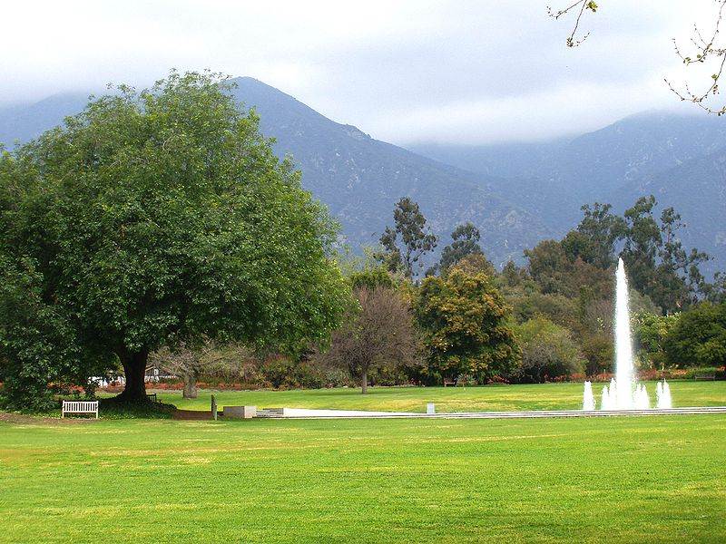 Los Angeles County Arboretum; Central fountain in arboretum with view of the San Gabriel Mountains behind.